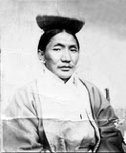 The photo of Shakabpa on the Tibetan Passport 1947 / 1948 - issued to Tsepon Shakabpa, then "Chief of the Finance Depratment of the Goverment of Tibet"